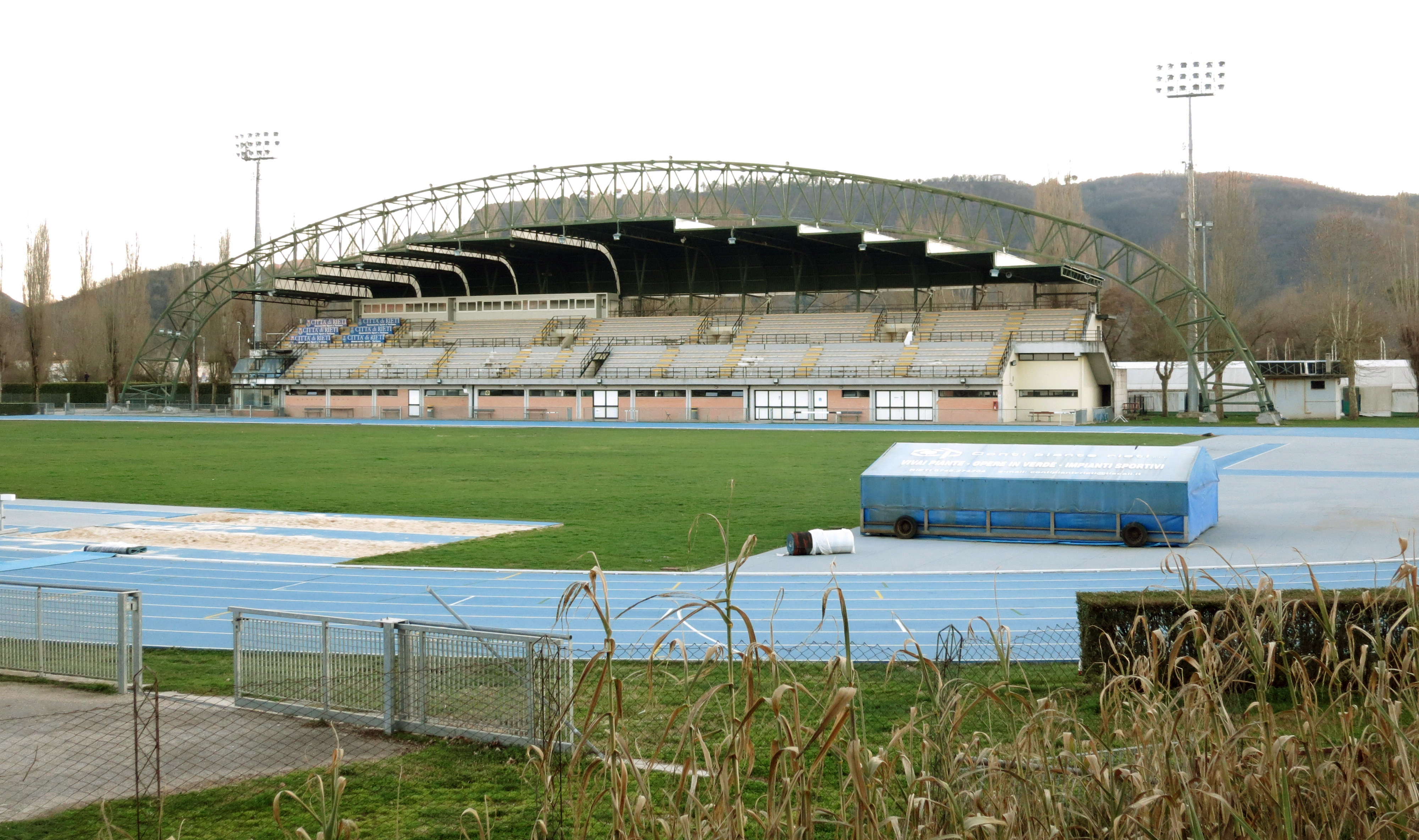 The "Velino" grandstand as seen from the embankment of the Velino river - Stadio Raul Guidobaldi, athletics venue in Rieti, Lazio, Italy